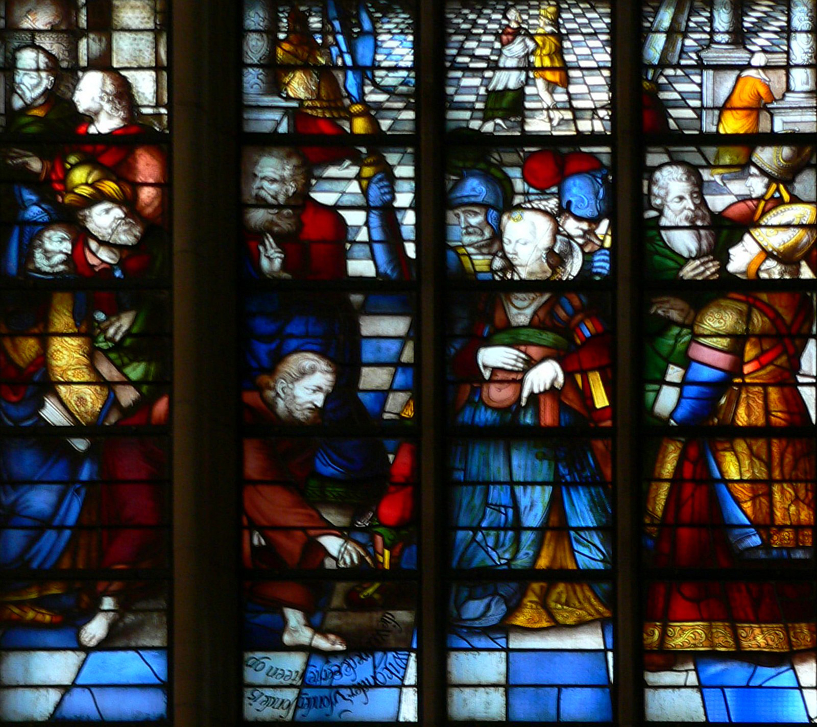 The stained-glass window number 28 (detail) in the Sint Janskerk at Gouda/Netherlands: "Christ and the woman taken in adultery"